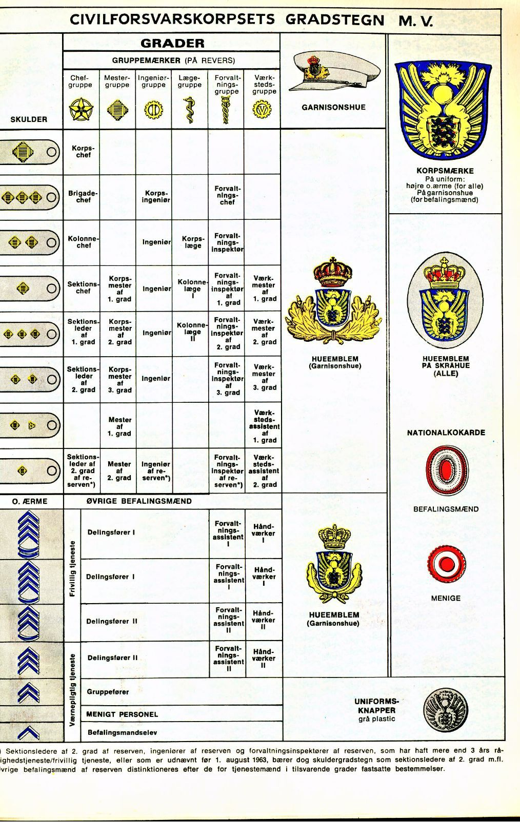 Rank insignia of the Danish Civil Defence Corps in 1972